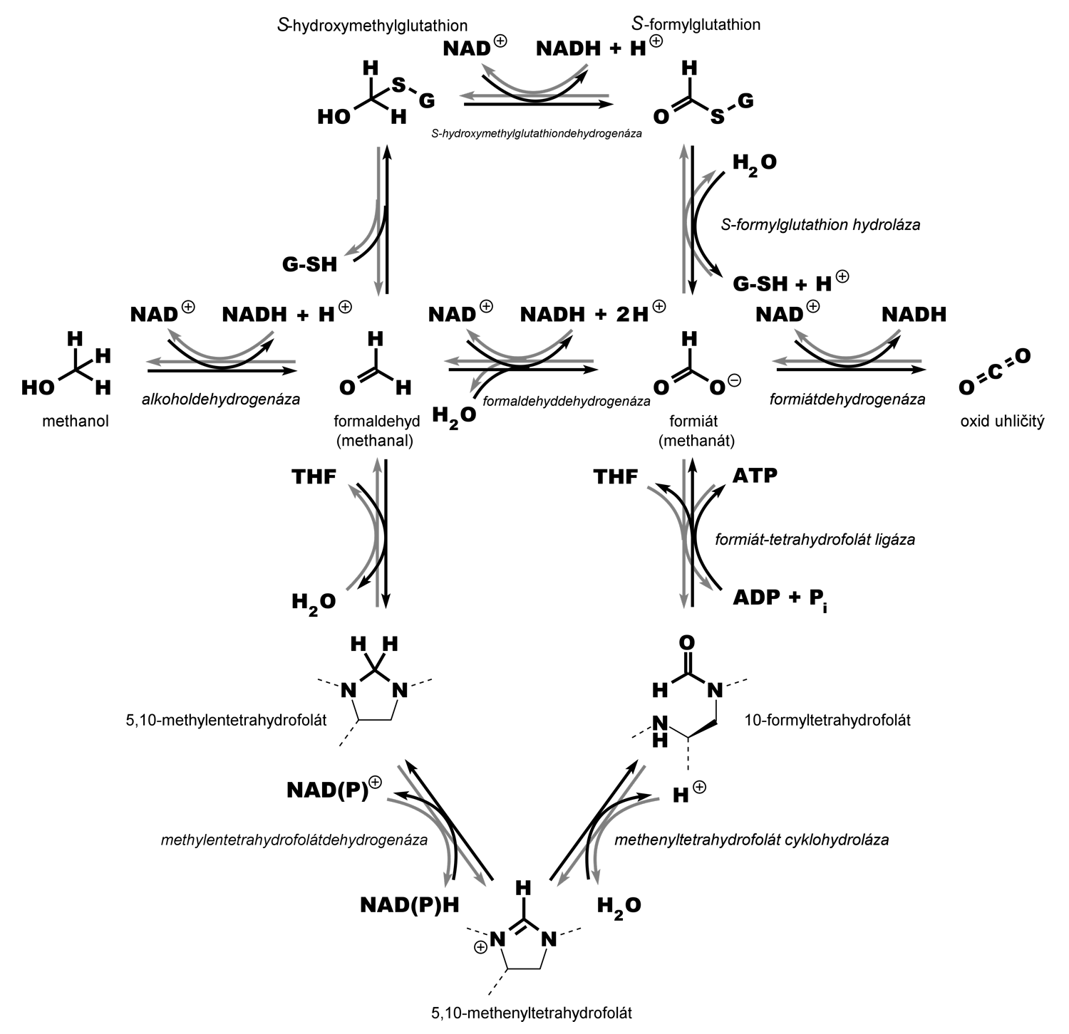 possible methanol oxidation routes, in Czech, transparent image; produced in BKChem